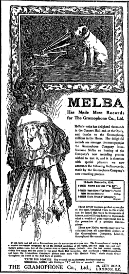 Newspaper advert of Nellie Melba (1861 – 1931) from The Times, 27 September 1910.